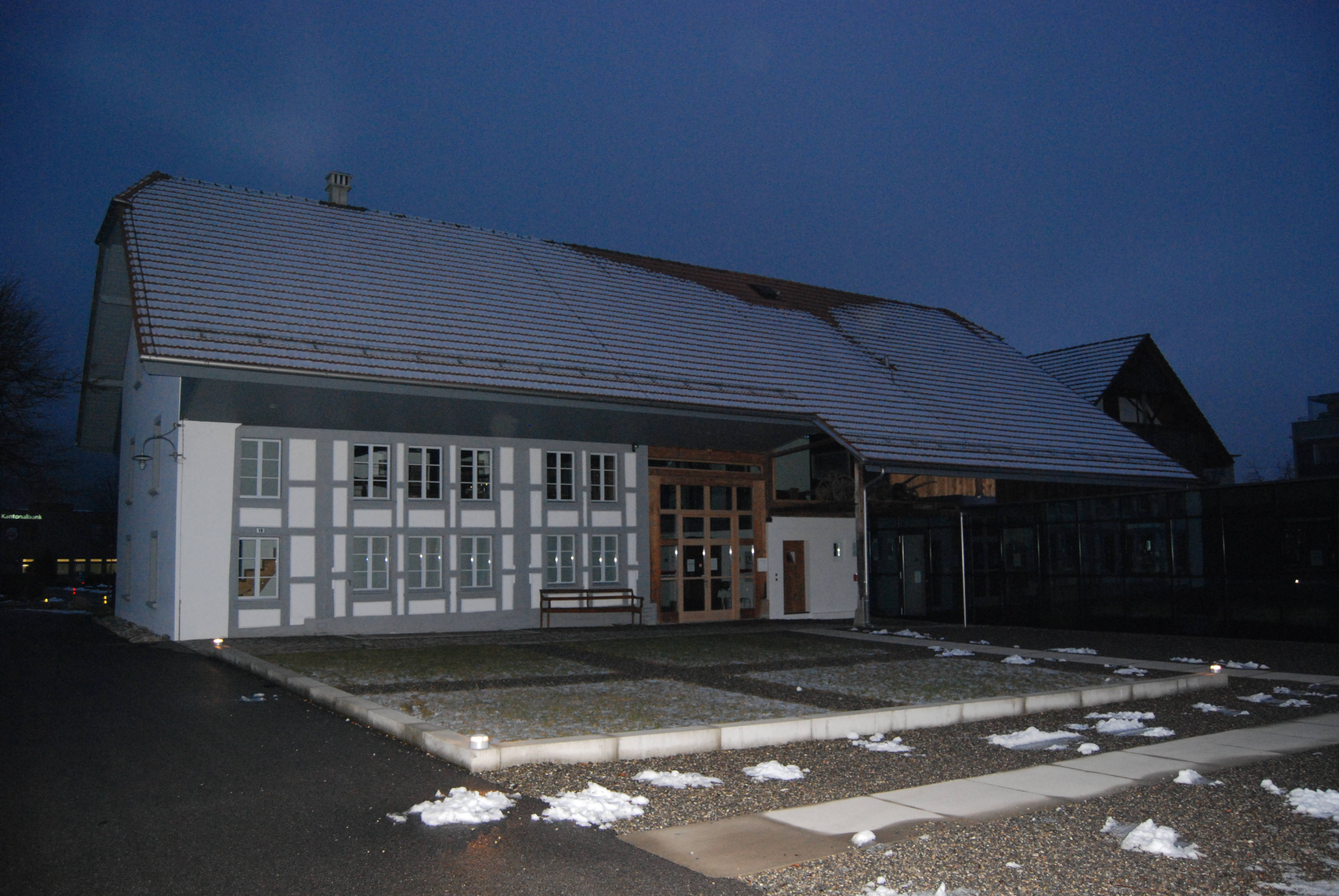 Rothrist Homeland Museum , canton of Aargau, SwitzerlandEsperanto: Hejmlanda Muzeo Rothrist, Kantono Argovio, Svislando